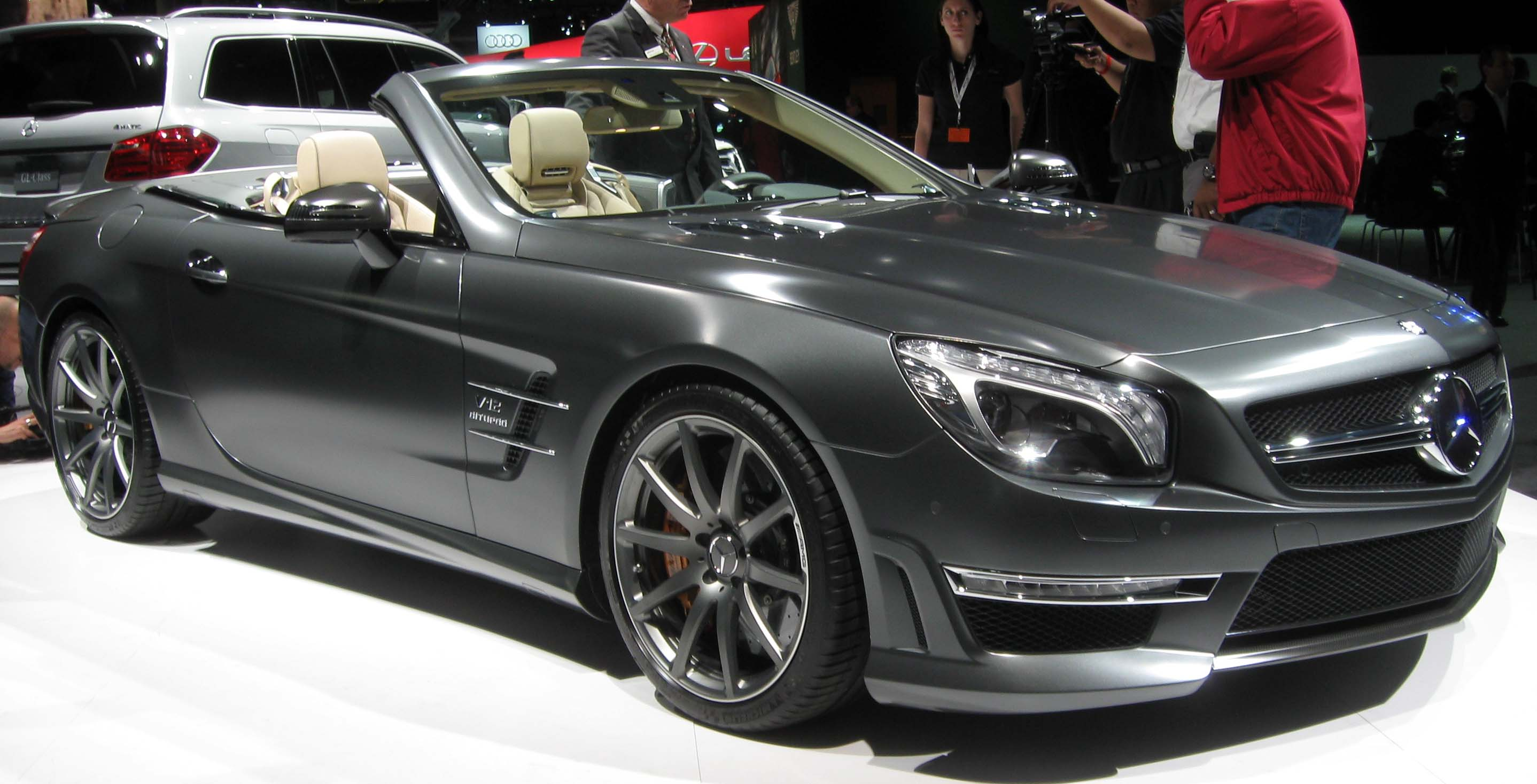 2013 Mercedes-Benz SL photographed at the 2012 New York International Auto Show.